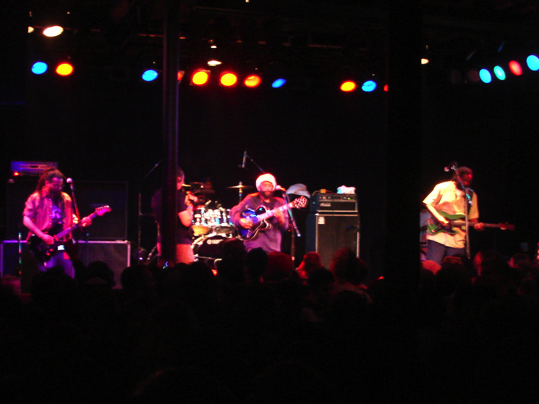 Bad Brains live, september 24th 2007, San Francisco